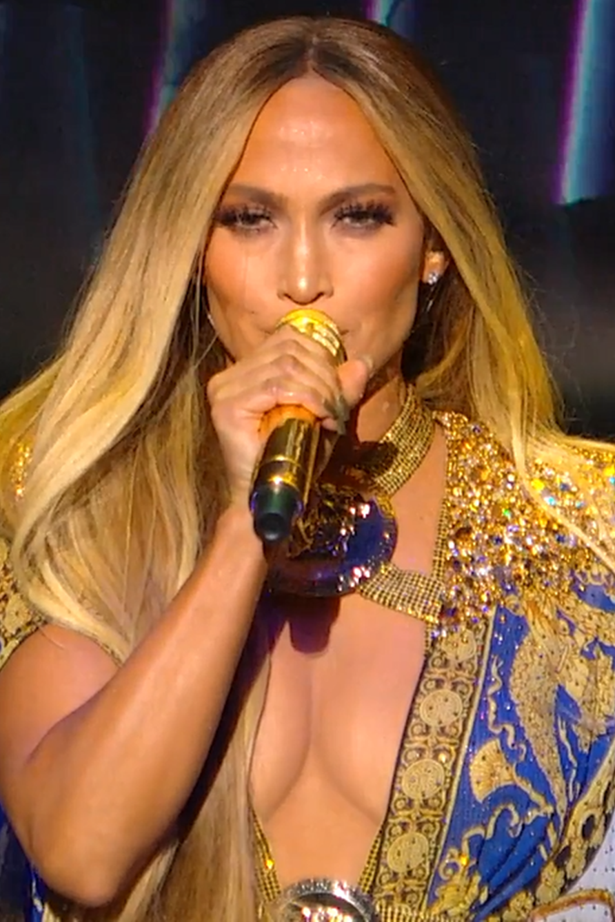 Jennifer Lopez performing at the Video Music Awards in New York City, on August 20, 2018.